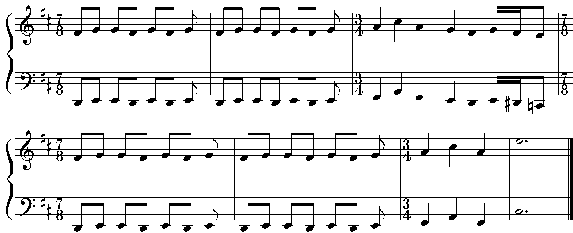 Big swifty head